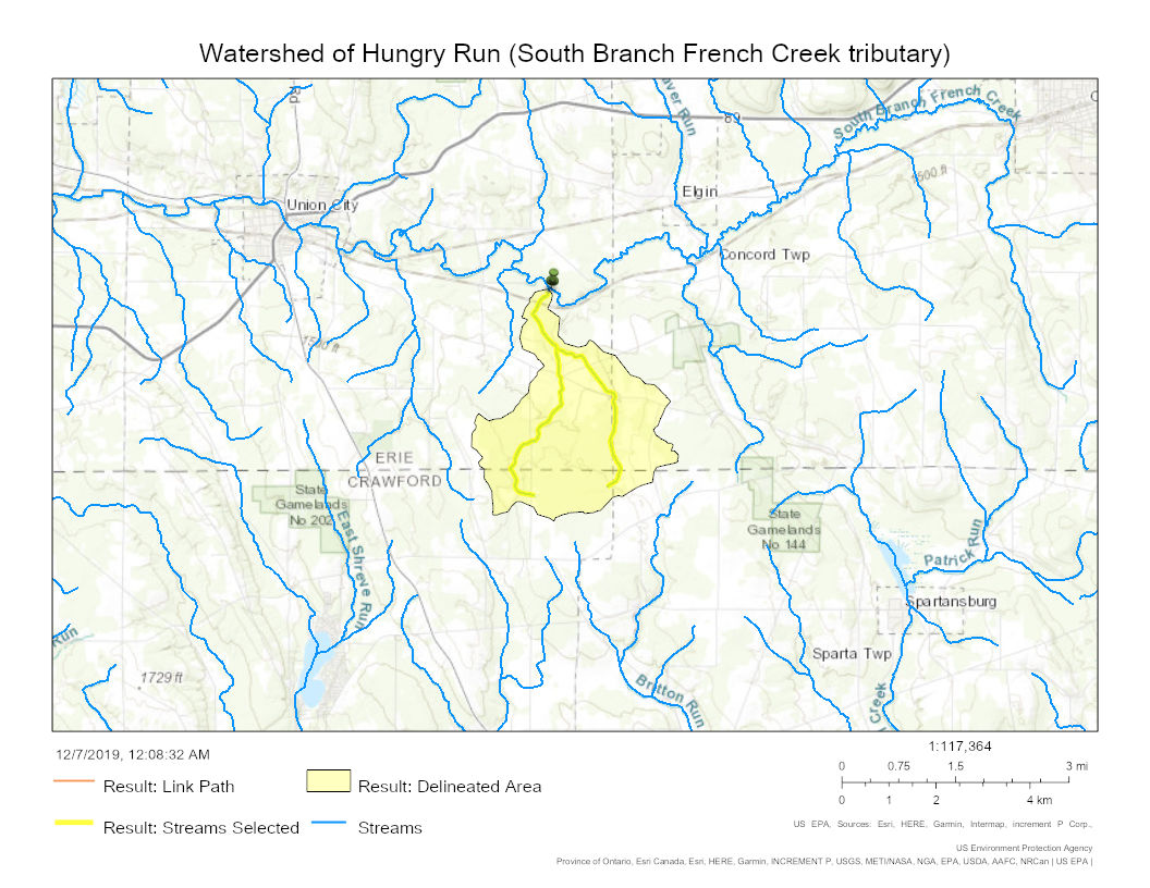 Map of the watershed of Hungry Run (South Branch French Creek tributary) in Crawford and Erie Counties, Pennsylvania.